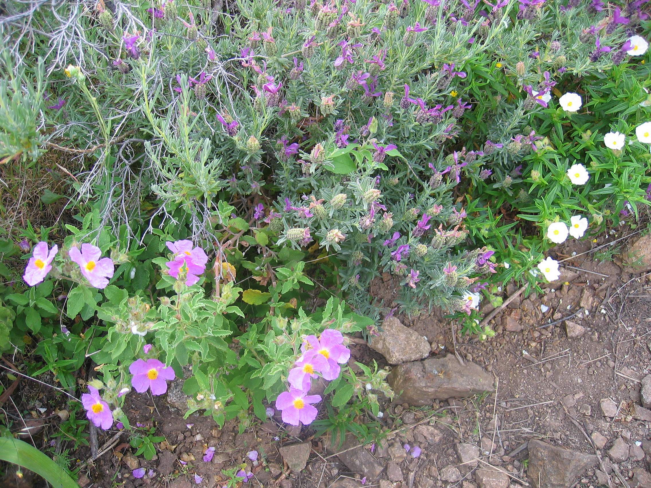 Calvi, Corse, France - Macchia with Cistus creticus (pink), Lavandula stoechas, and Cistus monspeliensis (white, back right).